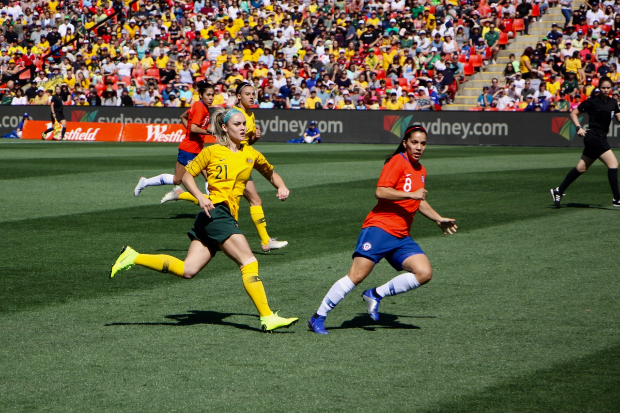 AusChi - Carpenter